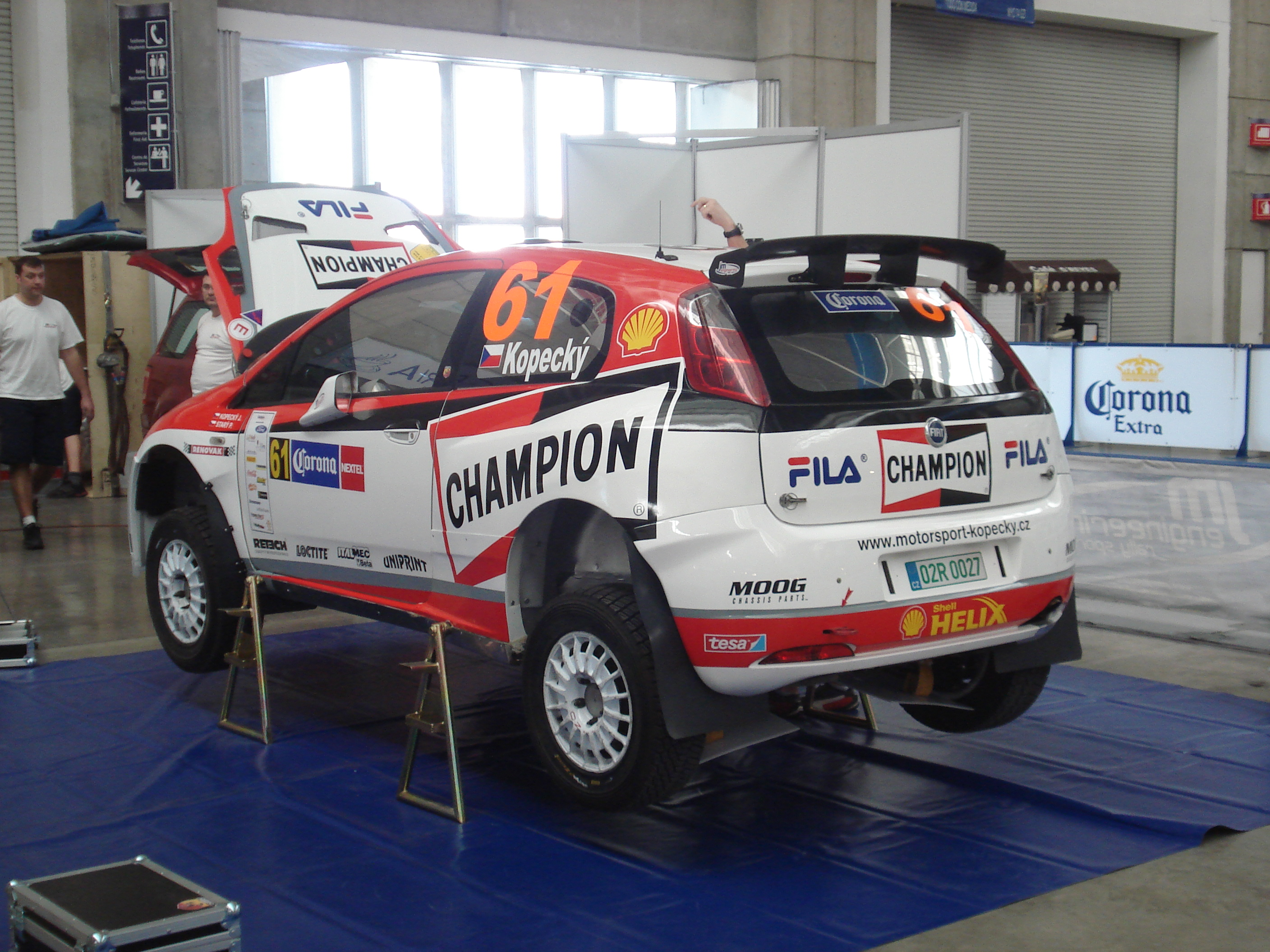 Jaan Kopecky's Fiat Punto S1600 parked prior to the 2008 Rally Mexico at rally base in the Poliforum in Leon, Mexico.